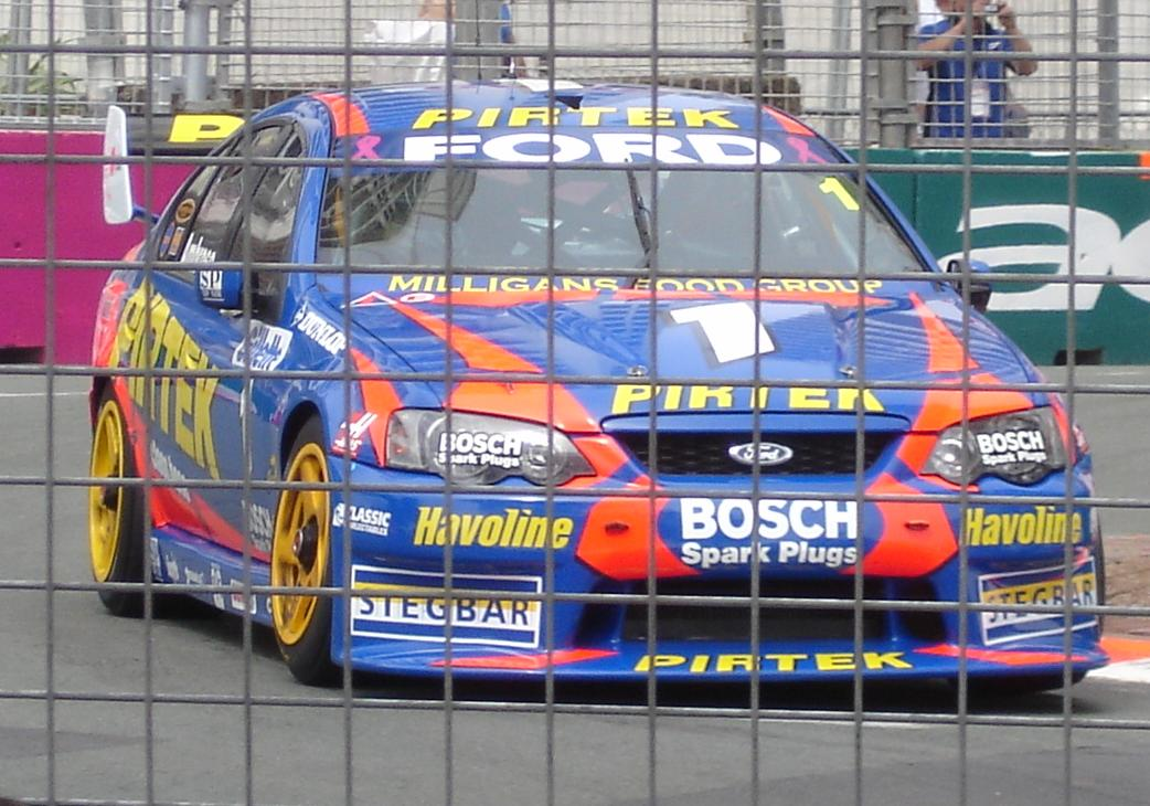 Marcos Ambrose competing in the V8 Supercar Championship Series at Surfers Paradise during the Indy 2005 weekend.